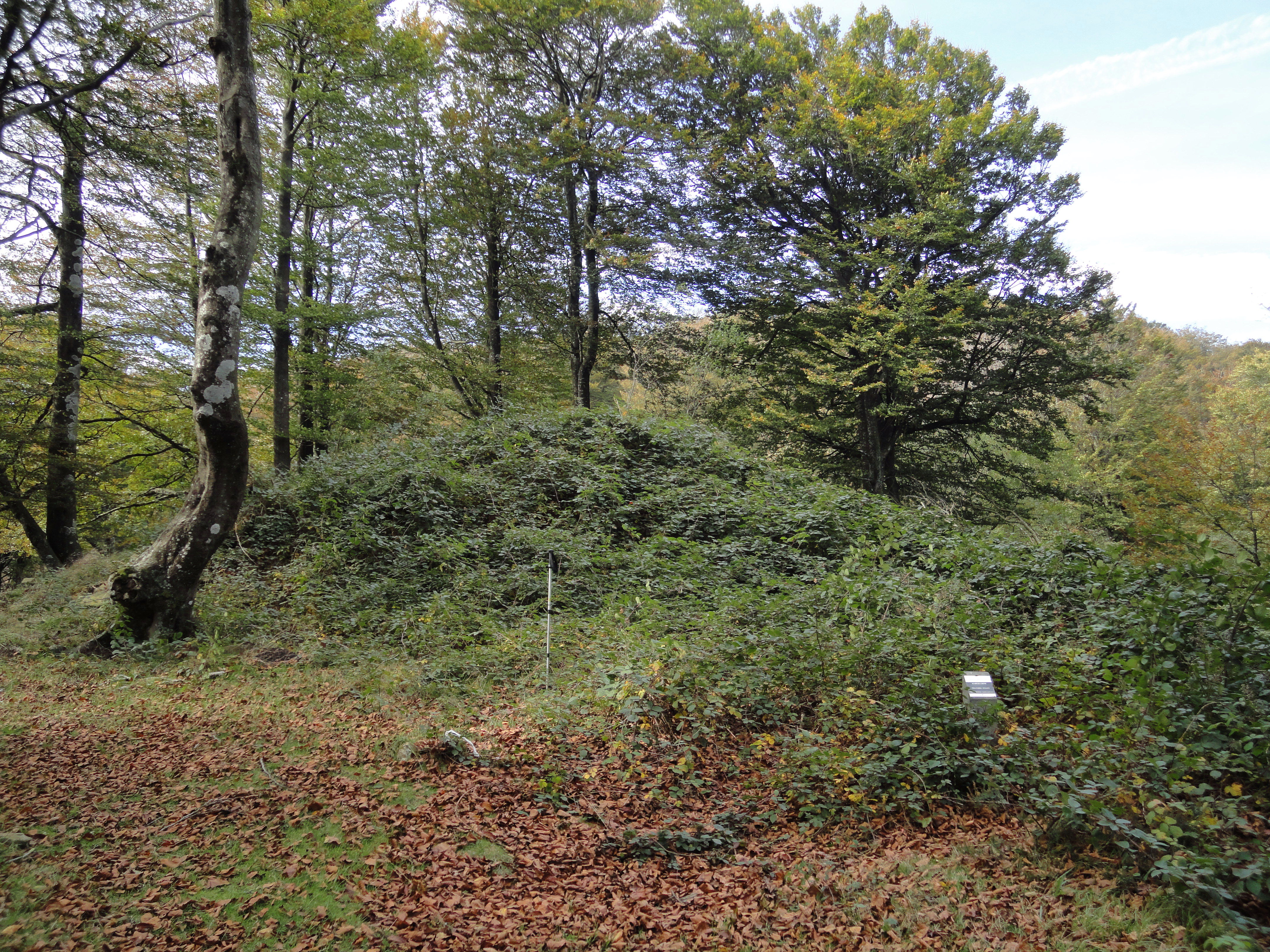 Igartza Mendebalde dolmen